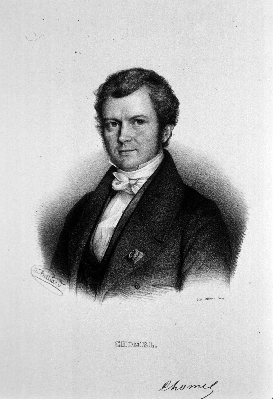 Auguste François Chomel, French pathologist. Lithograph from engraving.